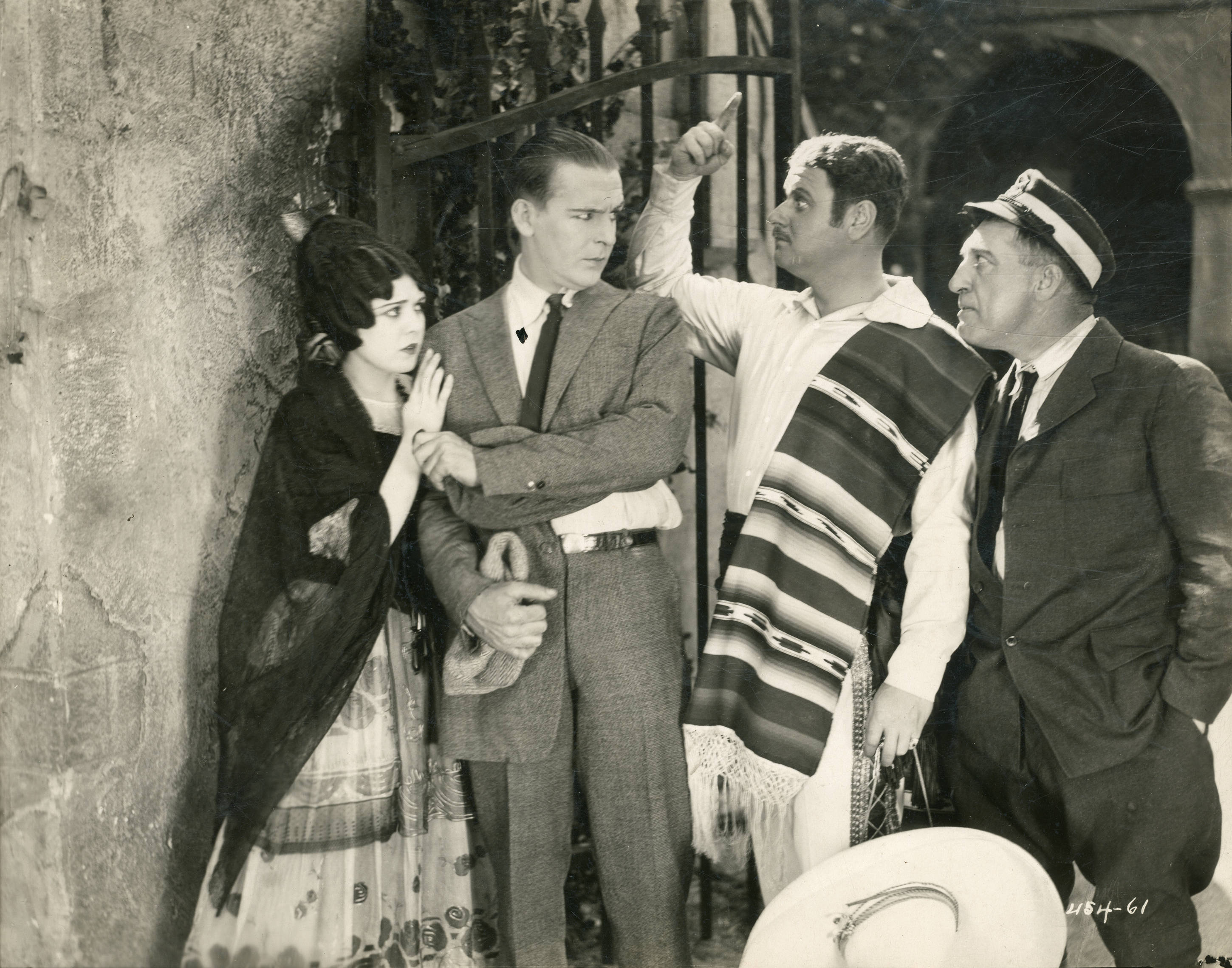 Still from the American film The Dictator (1922). Subjects: motion pictures, actresses, actors